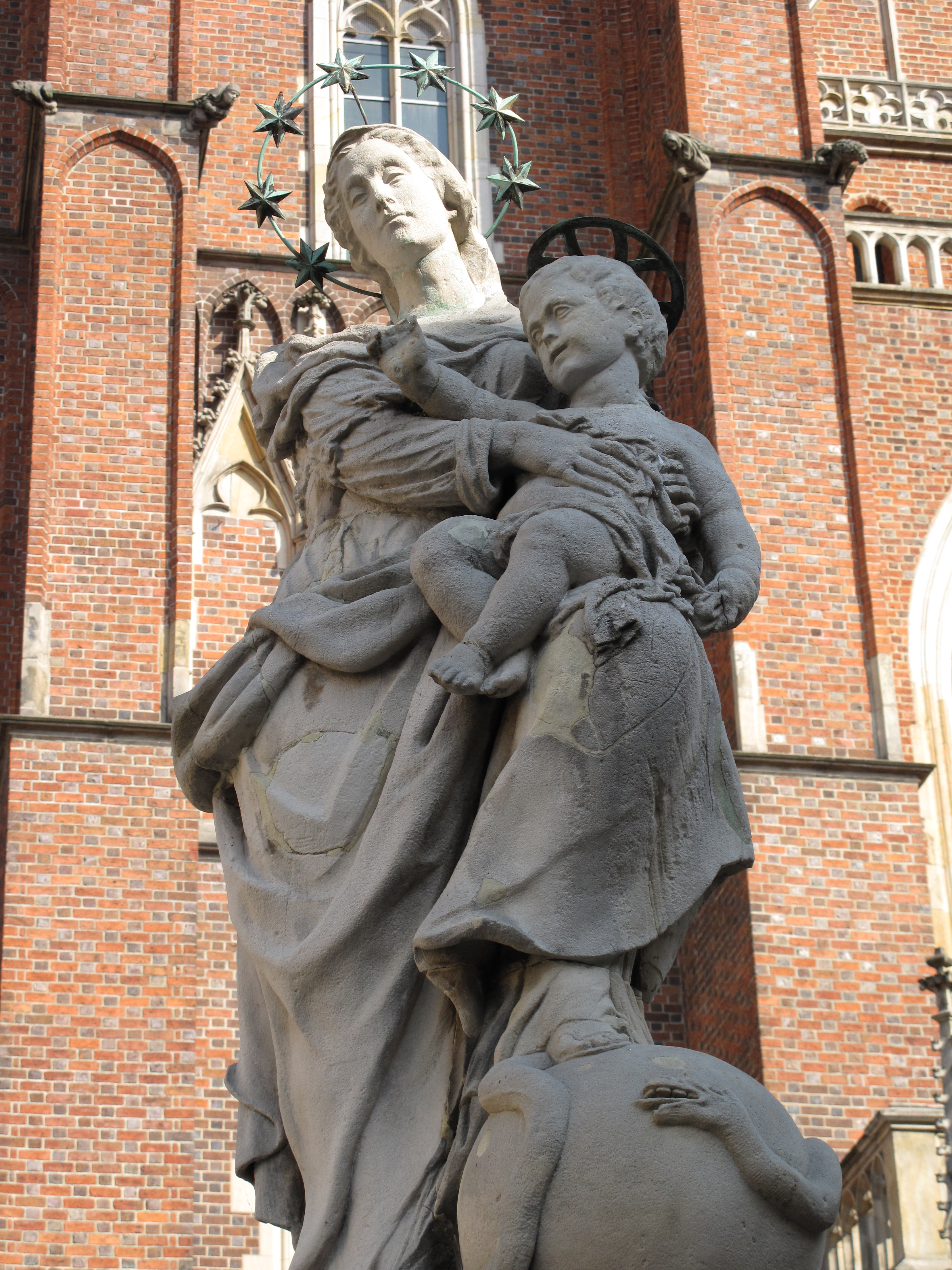 Wrocław, Poland.